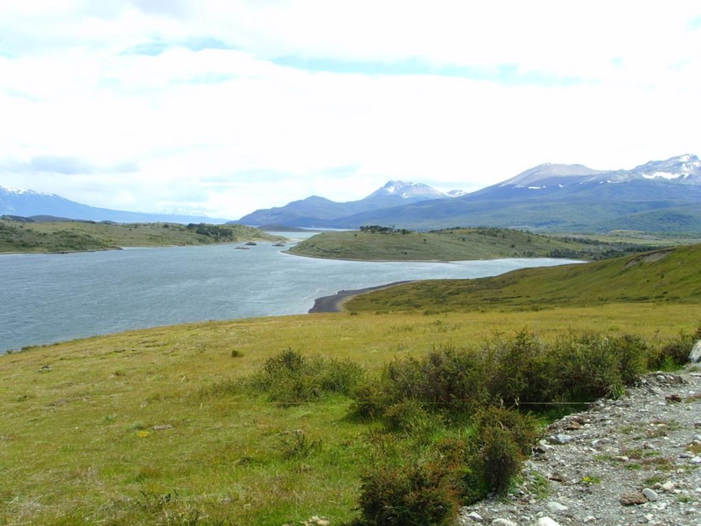 Lagoon in Tierra del Fuego, Argentina, near the coast of the Beagle Channel